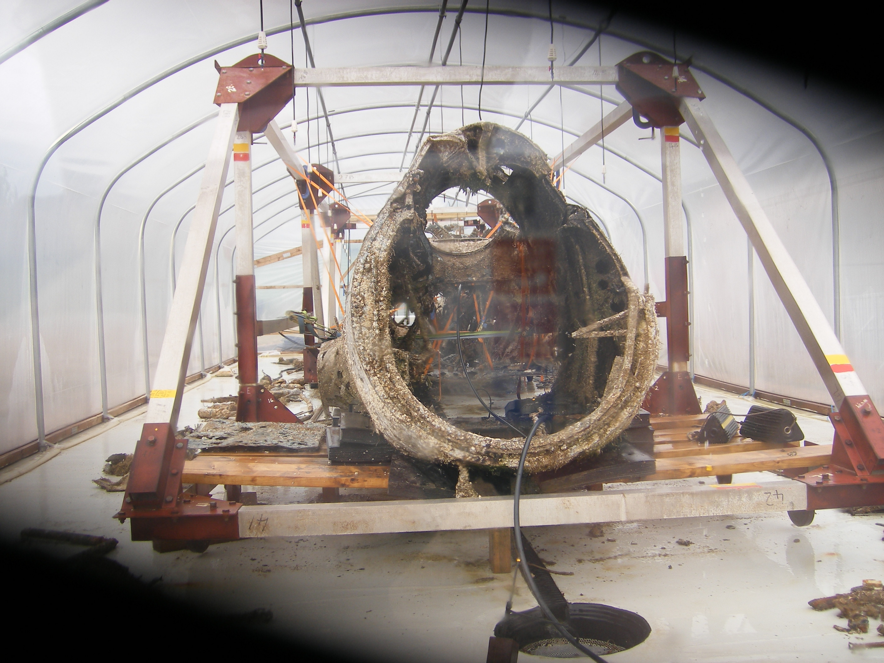 The picture is of a Dornier Do 17 bomber recovered from the English Channel 73 years after being shot down in the Battle of Britain.